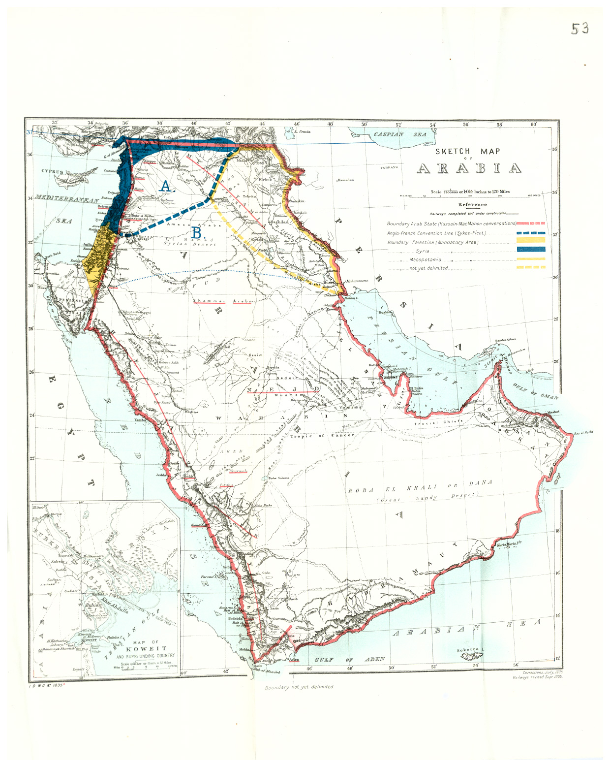 Map of Arabia appended to 1921 CAB24/120 cabinet memorandum on the proposed formation of Kingdom of Mesopotamia. Formerly part of the Ottoman Empire, the region was entrusted to Britain under a League of Nations mandate.